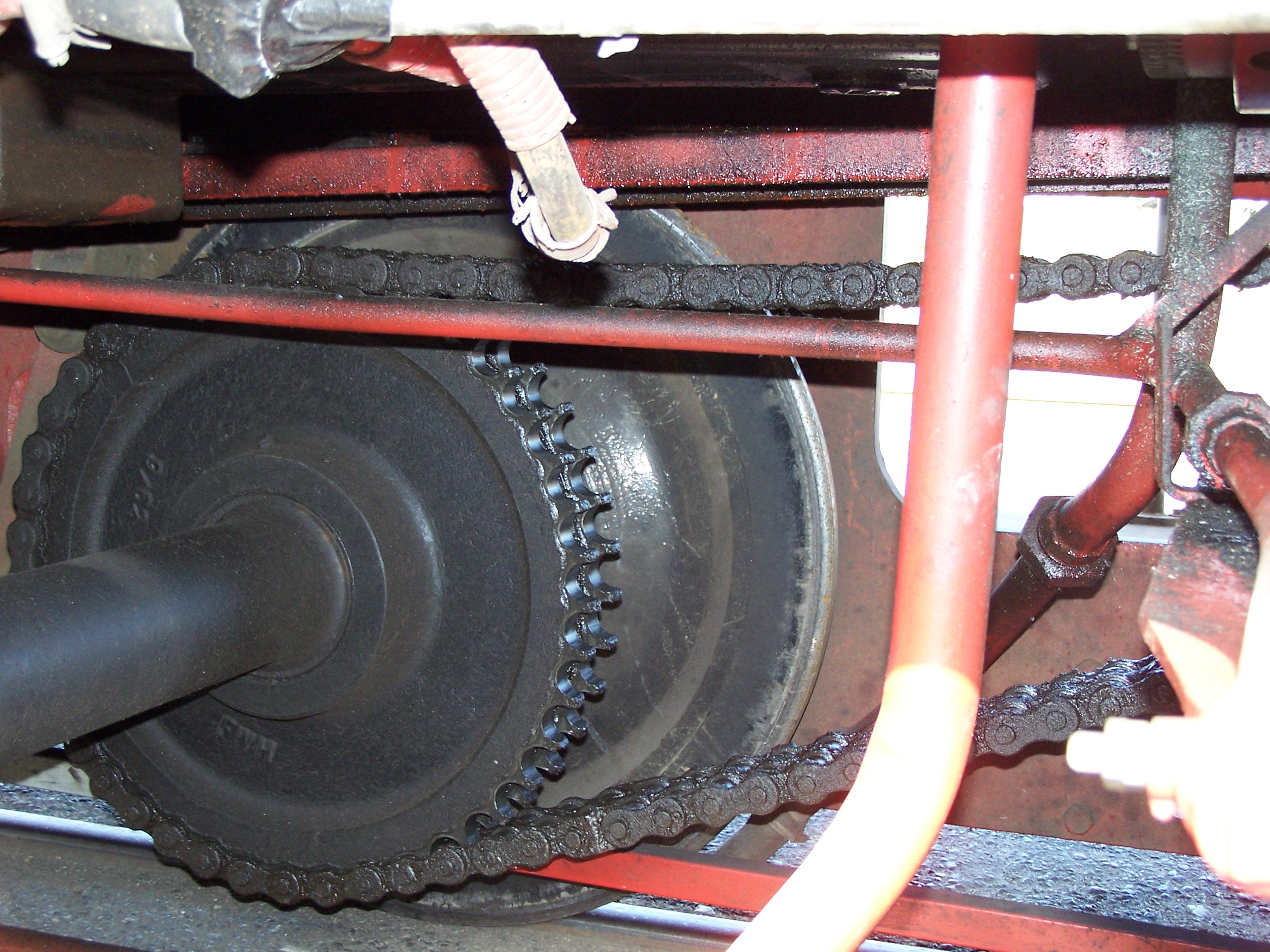 chain drive of Koe II 322607-3 of the Historische Eisenbahn Frankfurt in Frankfurt am Main on the Hafenbahn ground